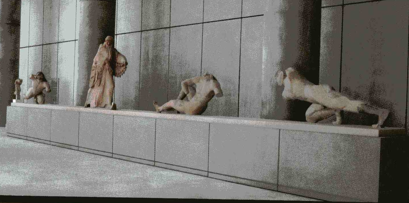 West pediment of the old temple of Athena Polias (Acropolis of Athens)